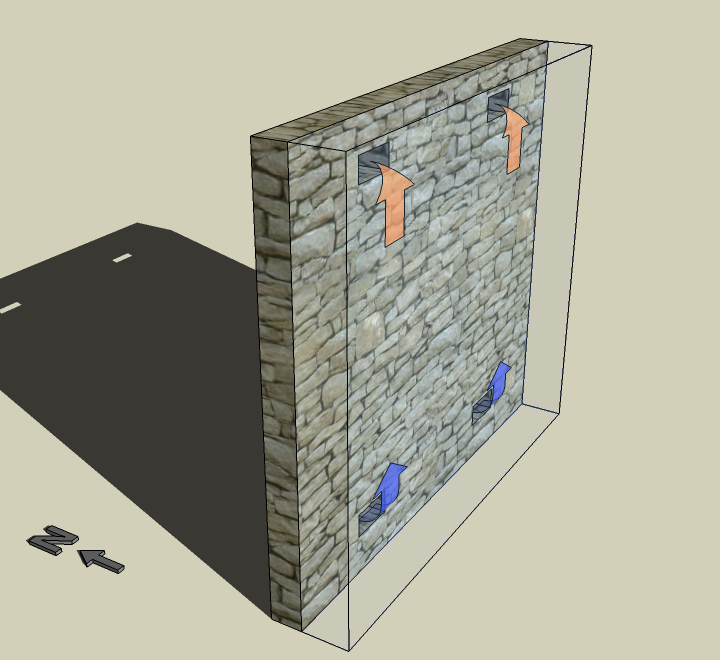 Trombe wall example, rendered from a SketchUp model by D. Bodine, CC-SA3